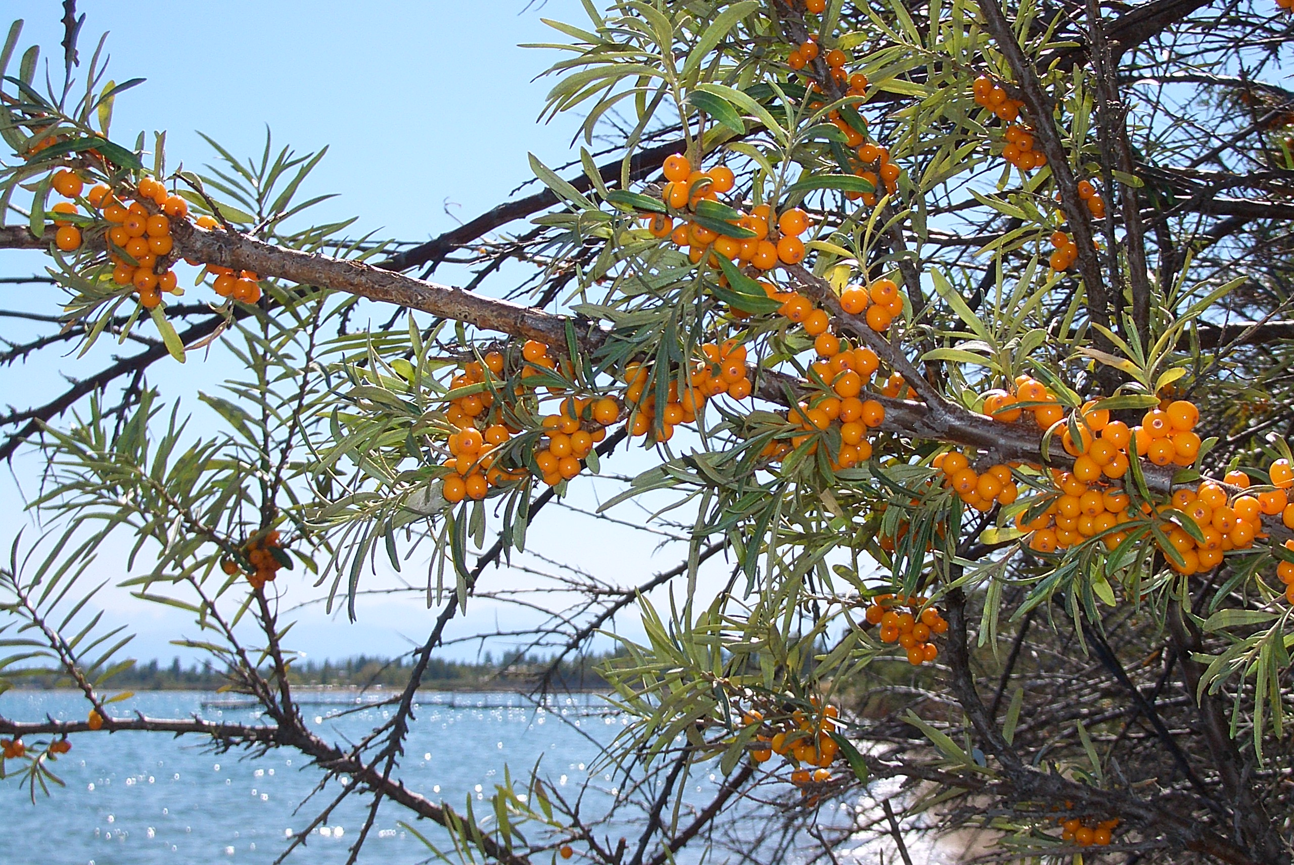 Sea buckthorn shrub on the shore of Lake Issyk Kul. The Kosh Kol resort are is in the background (looking west from a point between Tamchy and Kosh Kol).